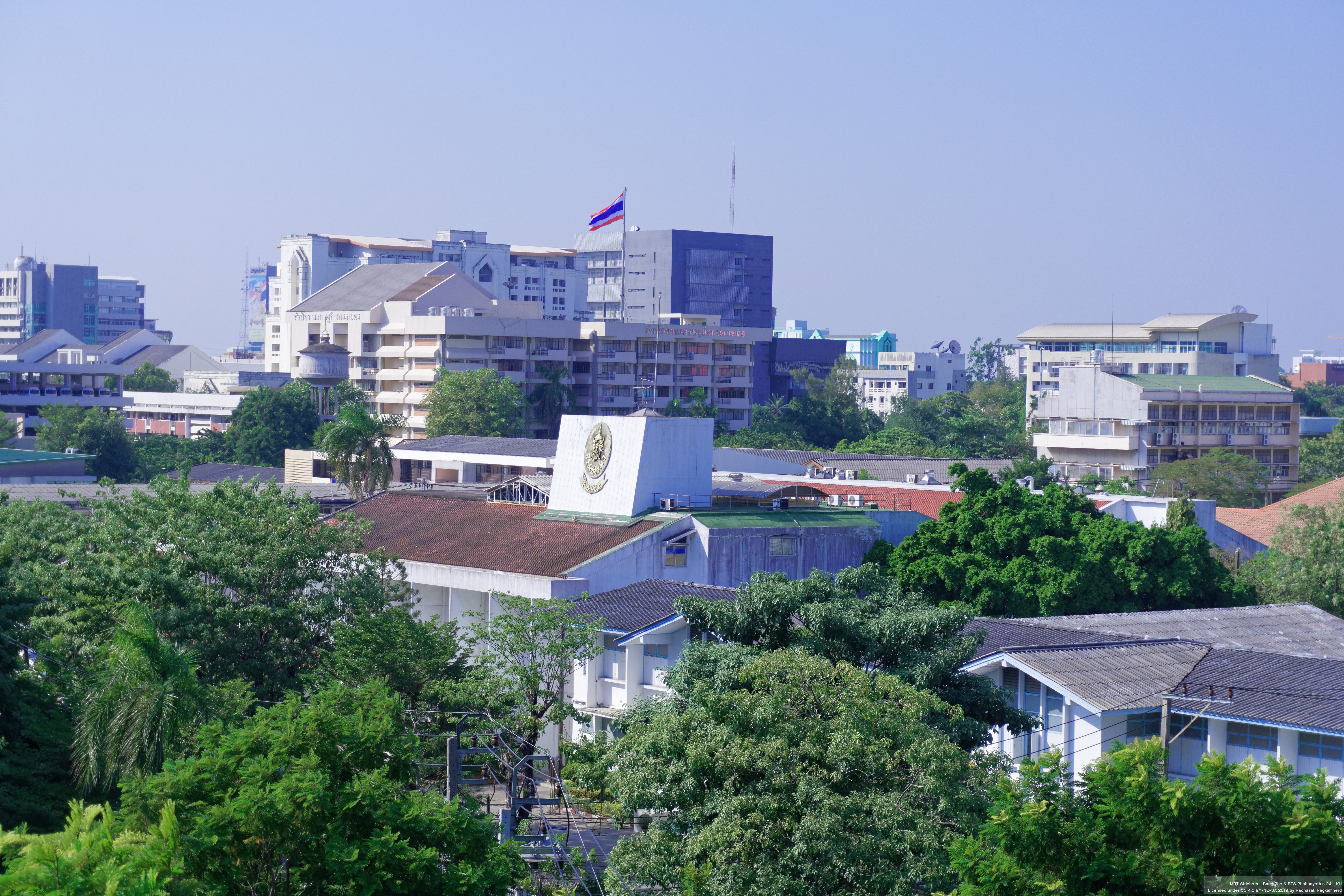 BTS Kasetsart University - Bangkok Aquarium